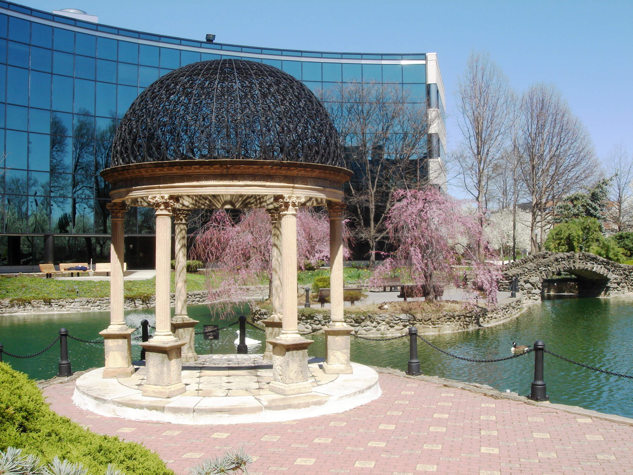 Courtyard of Salus University in Cheltenham Township, Montgomery County, Pennsylvania